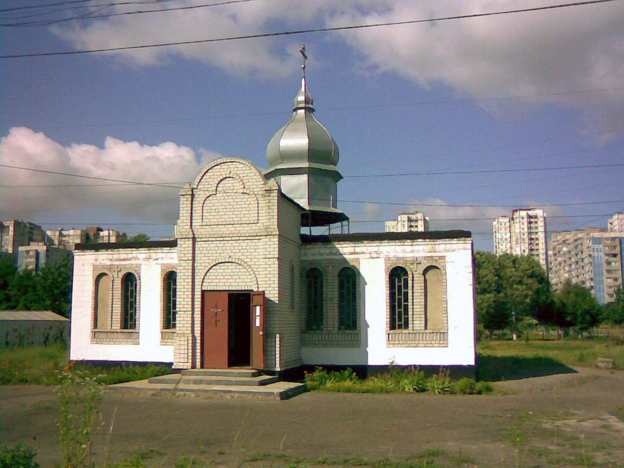 A tiny church at Ryleeva street in Dnepropetrovsk